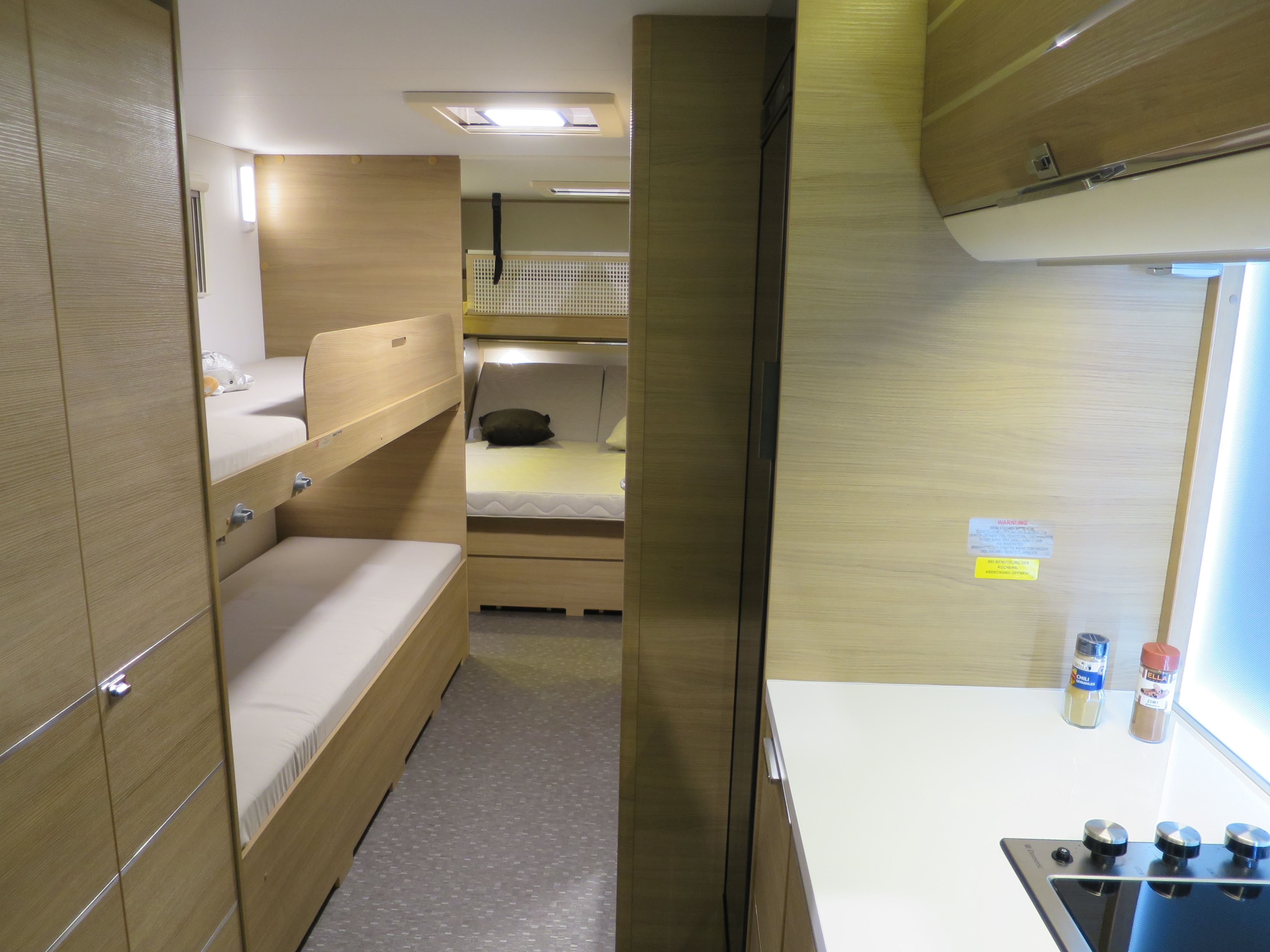 Adria Adora 573 UC.